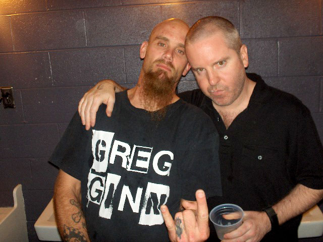 i took this photo. it is entirely my work. photo was taken by heath isenberg.